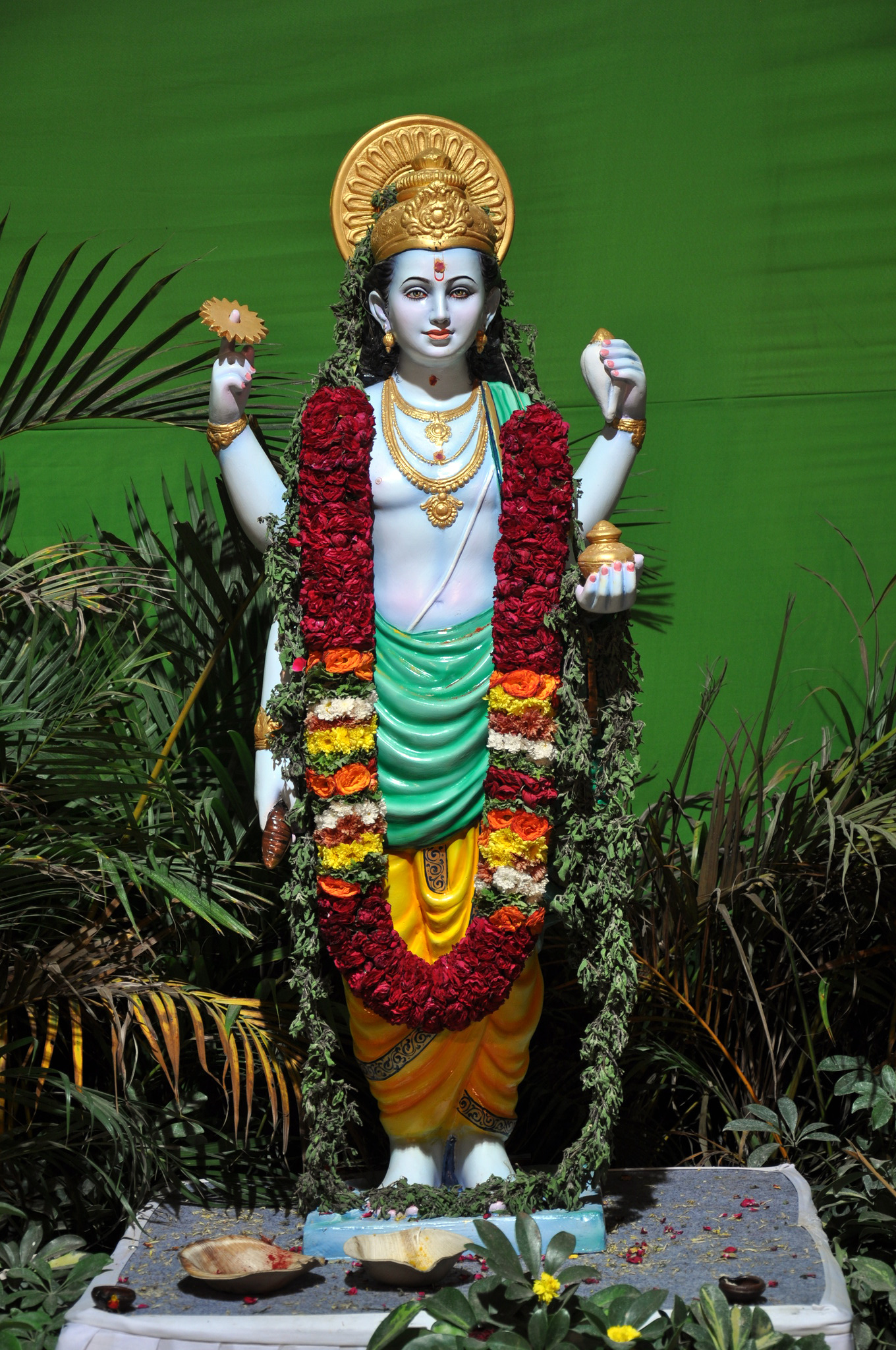 Dhanvantari (धन्वंतरी), known as an avatar of Vishnu is the Hindu god associated with Ayurveda. The above photo was taken at a recent Ayurveda expo in Bangalore titled 'Arogya'. ಕನ್ನಡ: ಧನ್ವಂತರಿ. संस्कृतम्: धन्वंतरी.